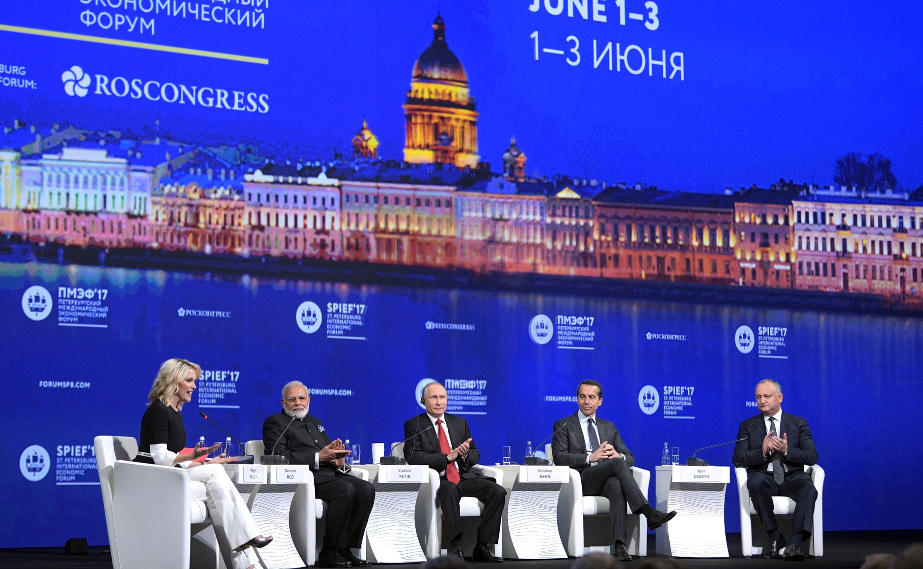 St Petersburg International Economic Forum plenary meeting